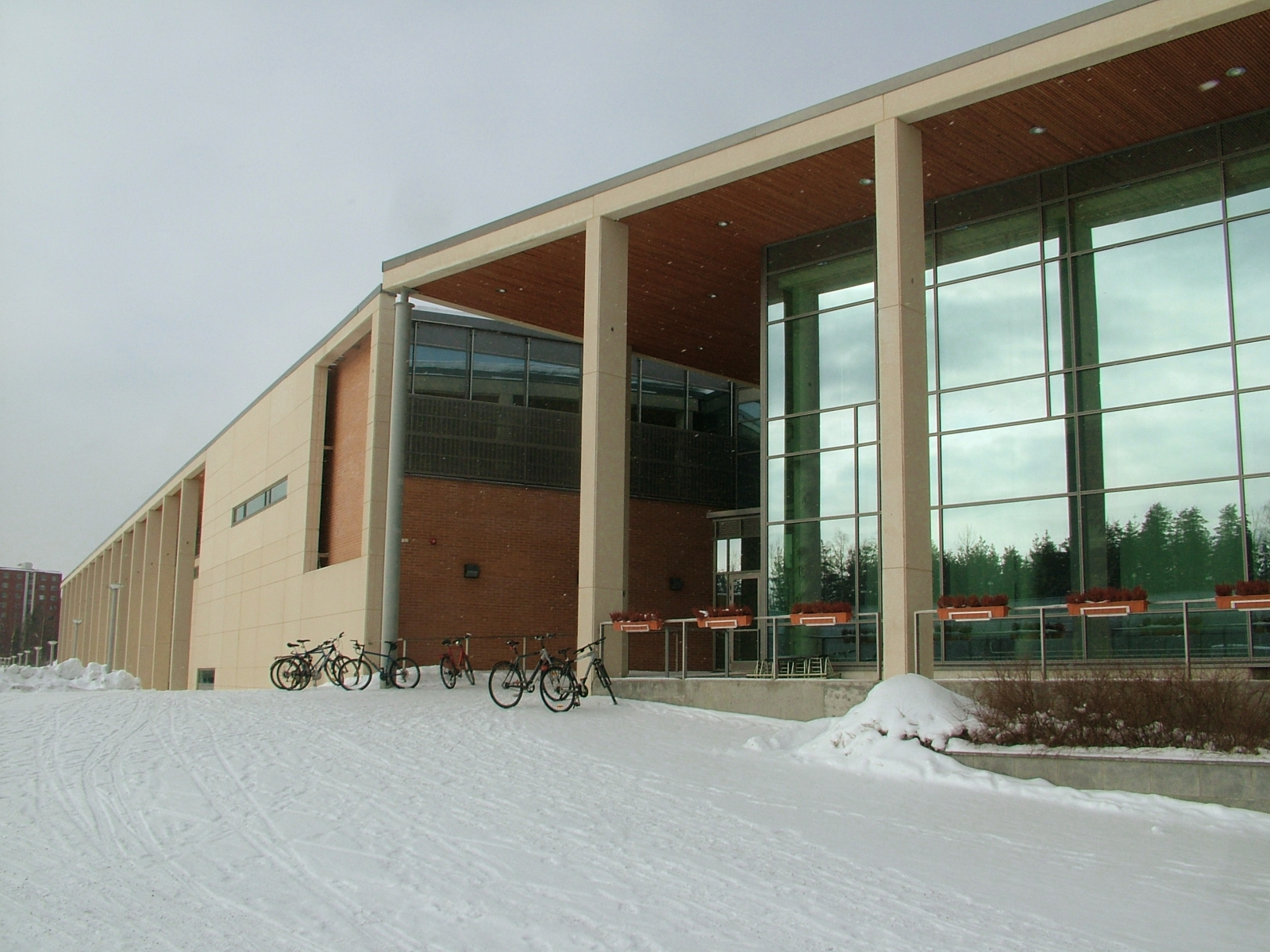 The department of computer science at Tampere University of Technology.